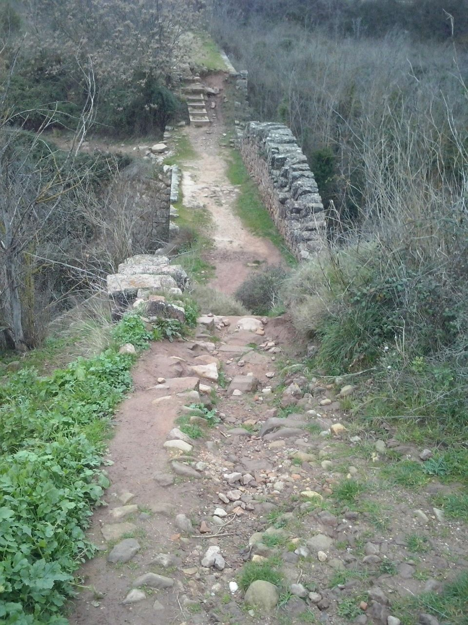 Brigde of the Spanish village Cirauqui, in the province of Navarra, where the pilgrims cross in their way to the "Way of St. James."